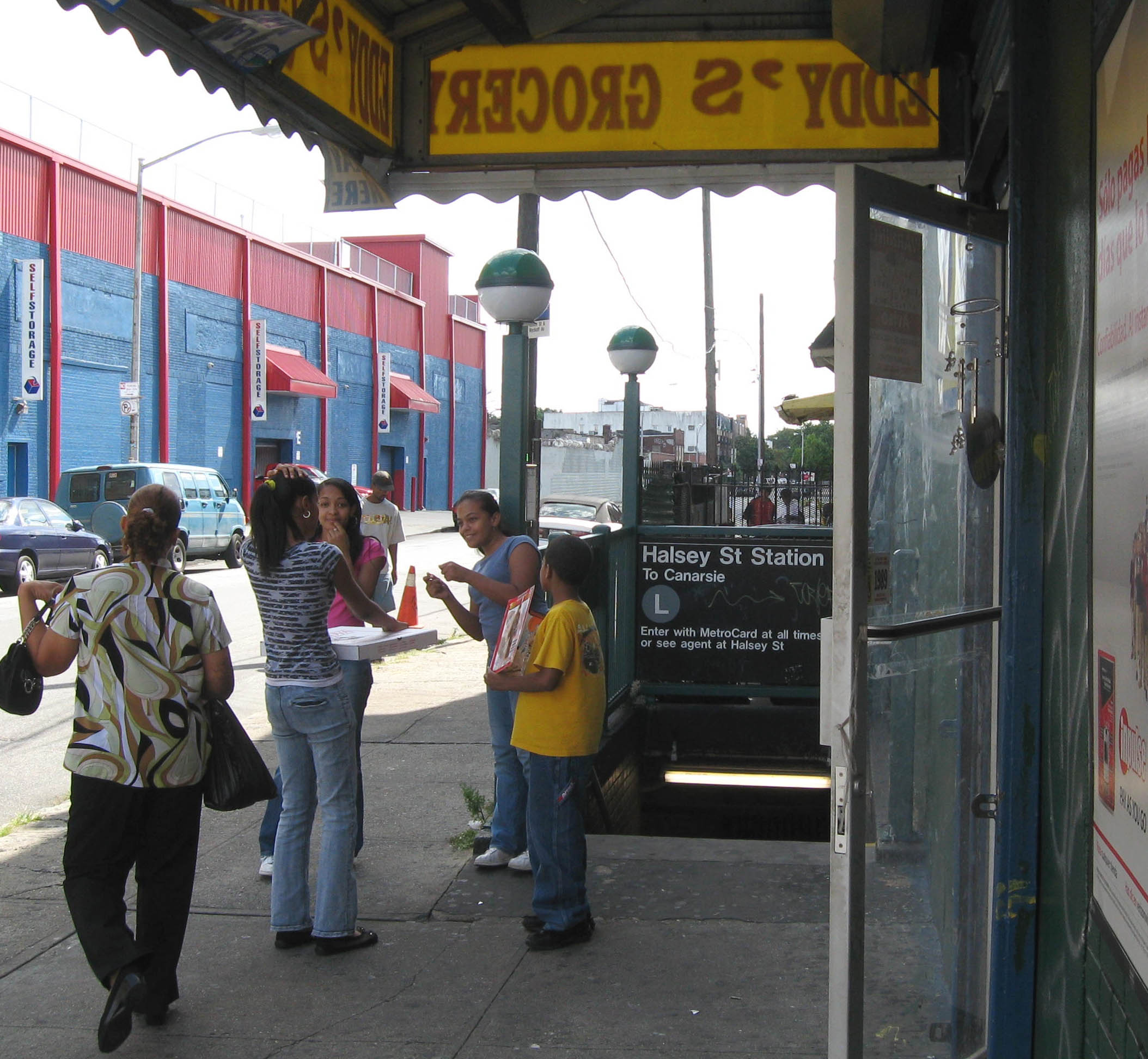 Halsey Street (BMT Canarsie Line) street stair